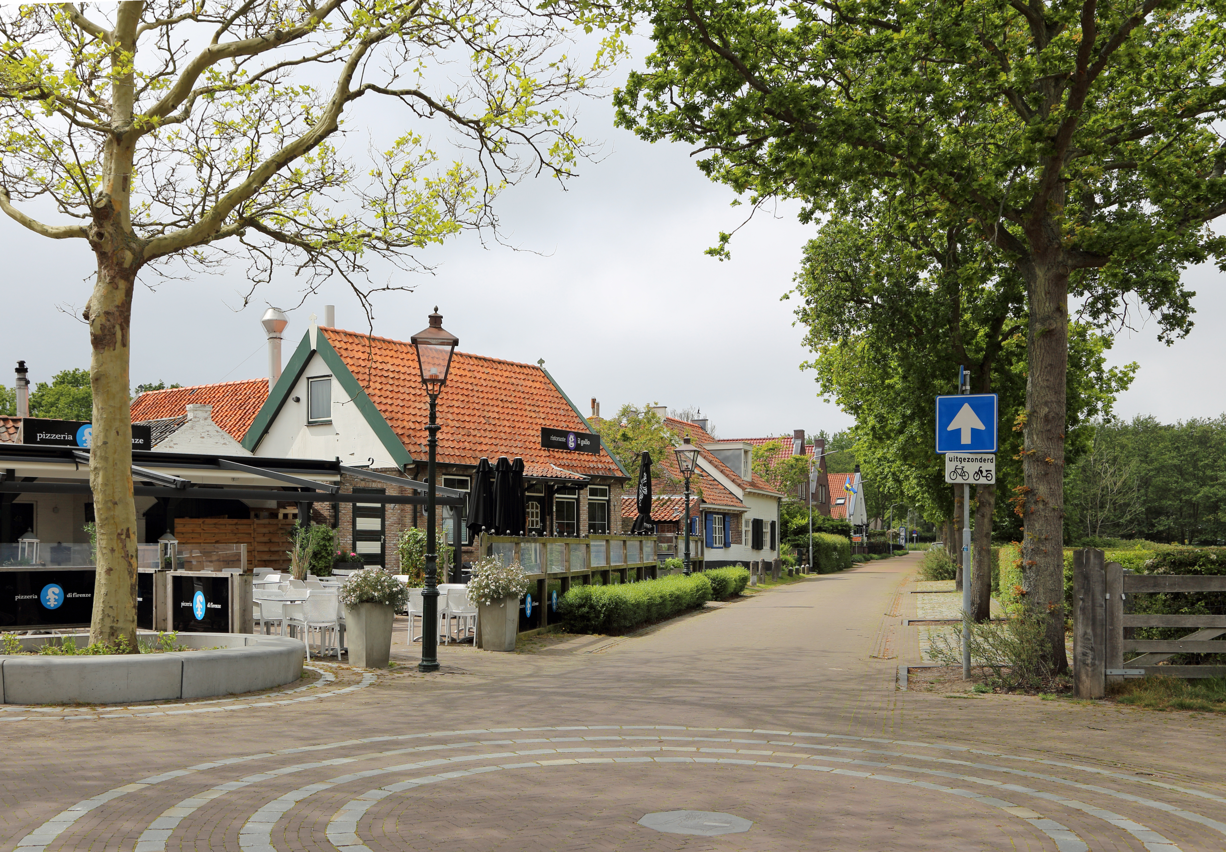 The village of Westenschouwen (municipality of Schouwen-Duiveland, province of Zeeland, Netherlands)